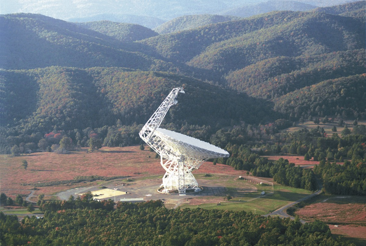 The Robert C. Byrd Green Bank Radio Telescope (GBT) focuses 2.3 acres of radio light. It is 485ft tall, nearly as tall as the nearby mountains and much taller than pine trees in the national forest. The telescope is in a valley of the Allegheny mountains to shield the observations from radio interference.